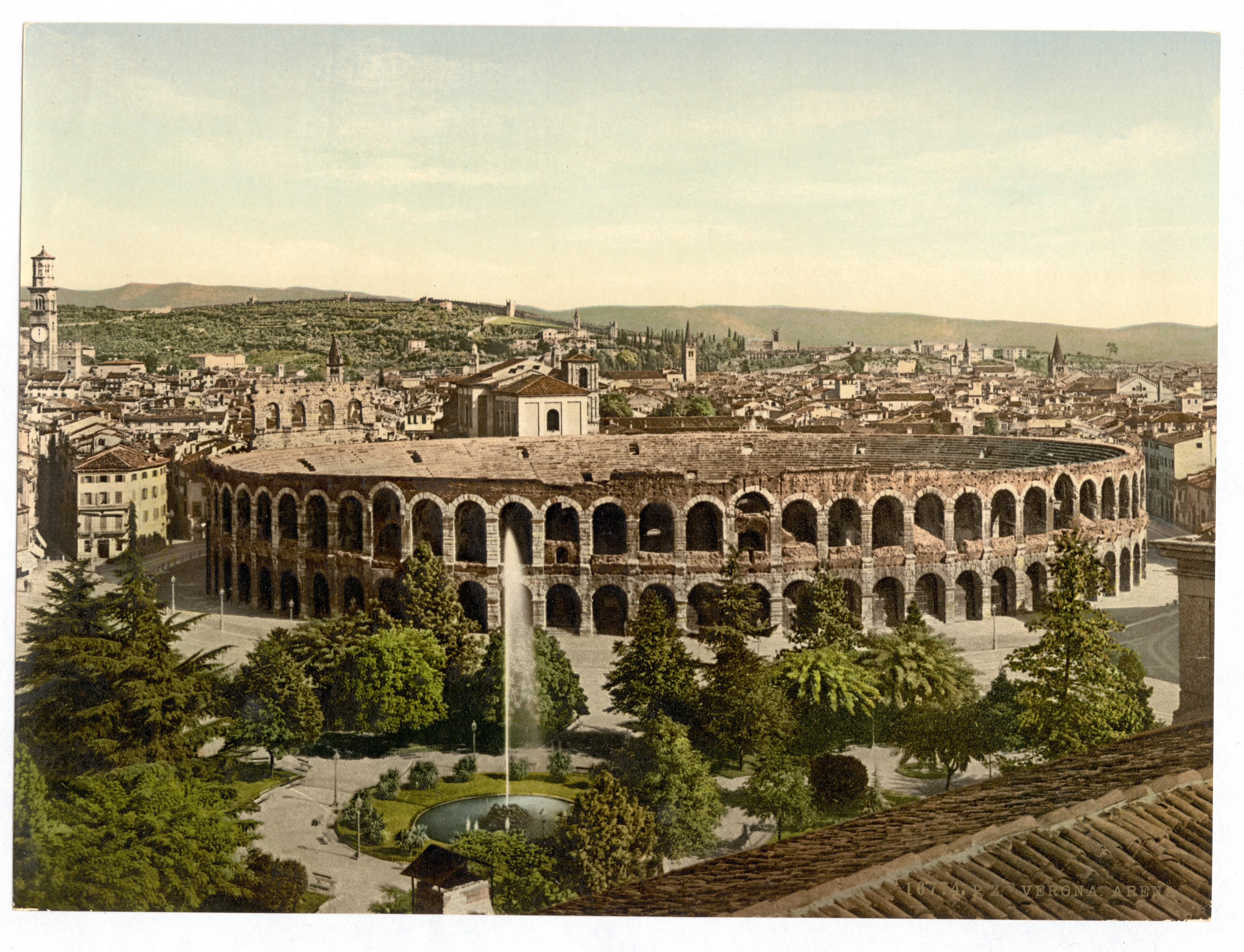 Print no. "16774".; More information about the Photochrom Print Collection is available at Forms part of: Views of architecture and other sites in Italy in the Photochrom print collection.; Title from the Detroit Publishing Co., Catalogue J-foreign section, Detroit, Mich. : Detroit Publishing Company, 1905.